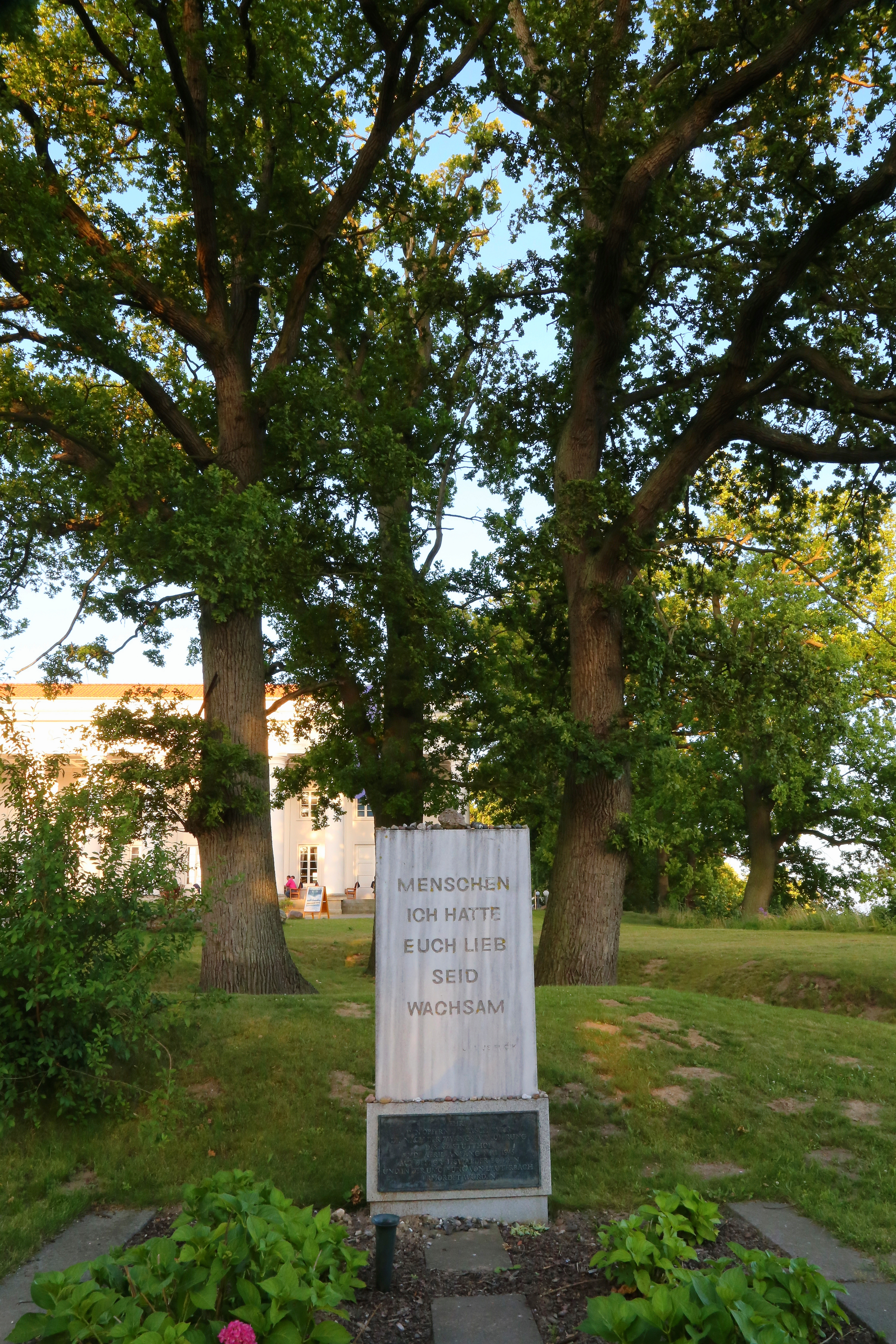 Listed memorial for the victims of fascism situated nearby the hotel and restaurant Badehaus Goor (Goor Bath House) in Putbus-Lauterbach, Landkreis Vorpommern-Rügen, Mecklenburg-Vorpommern, Germany.